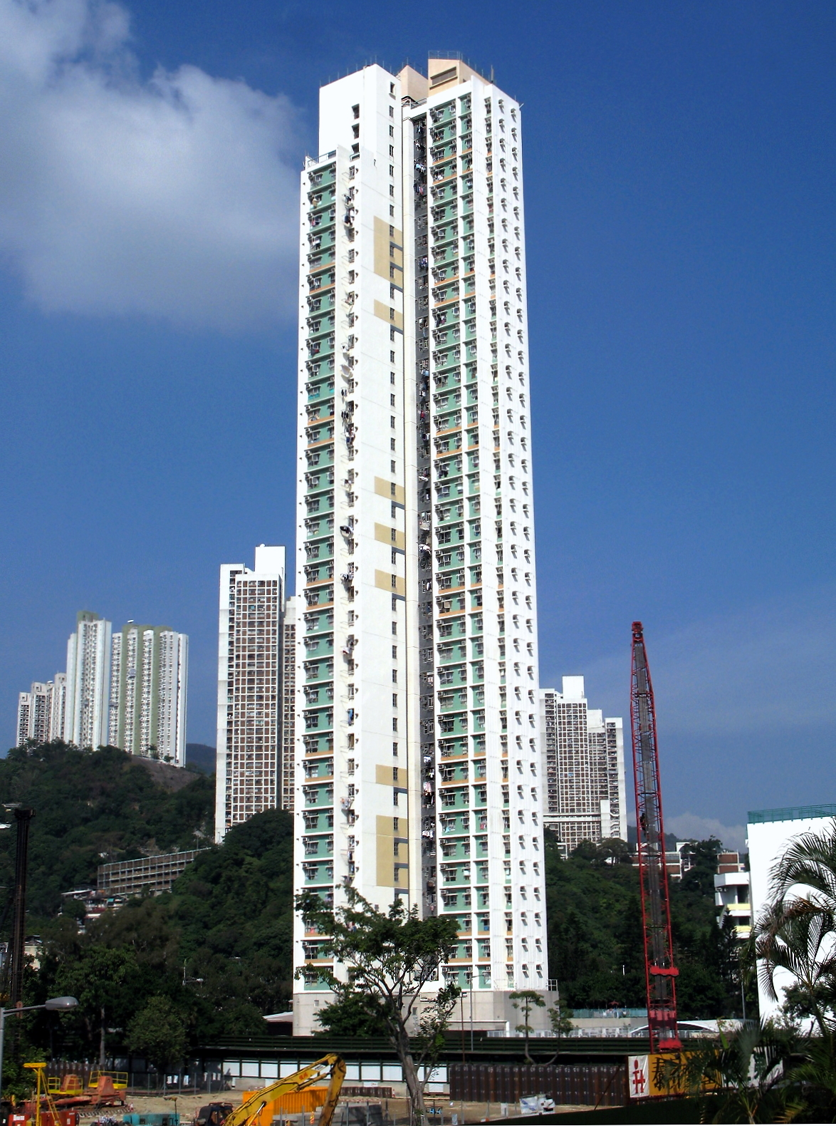 King Wo House 禾輋邨「第十三座」：景和樓